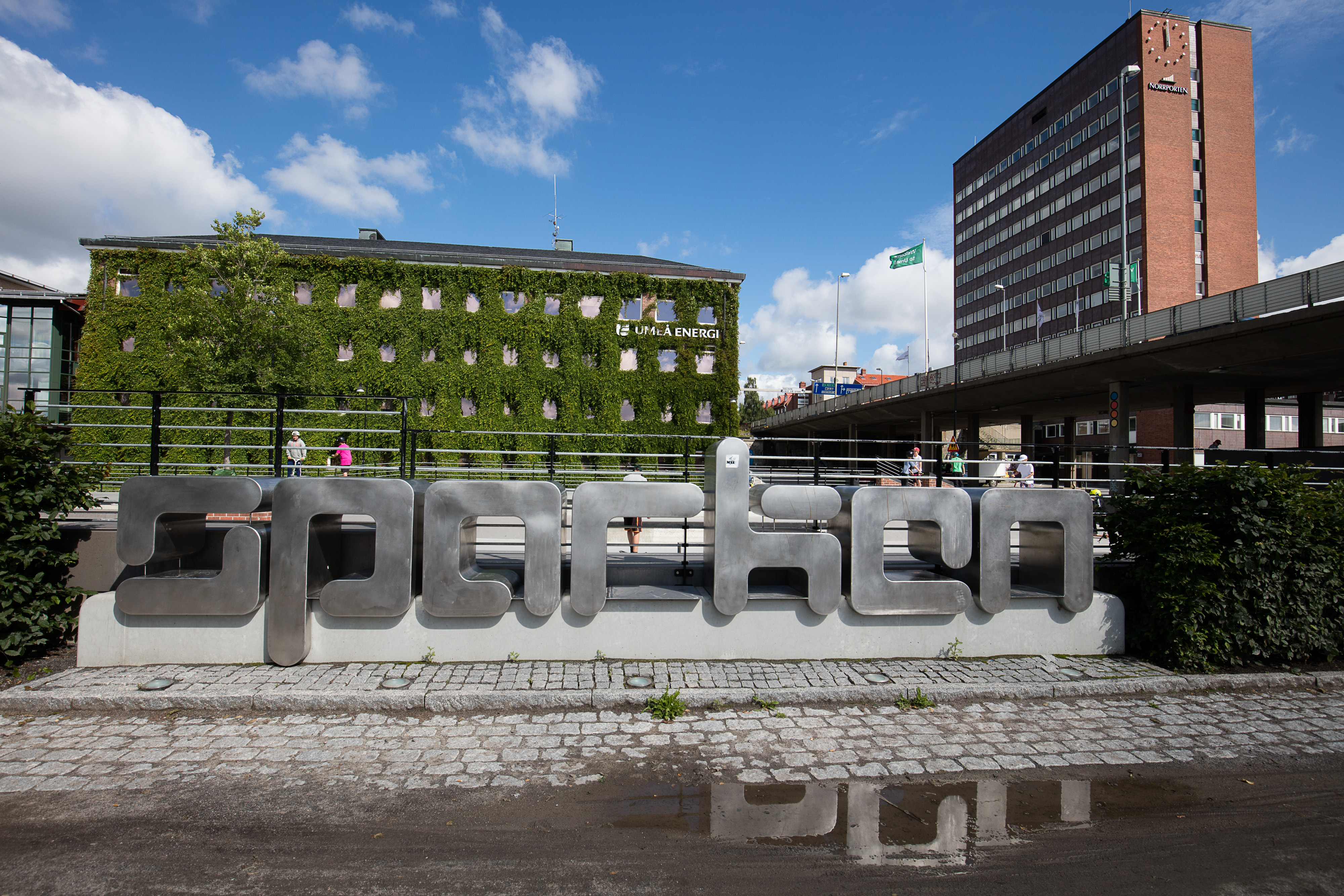 Skateboard park "Sparken" in central Umeå.